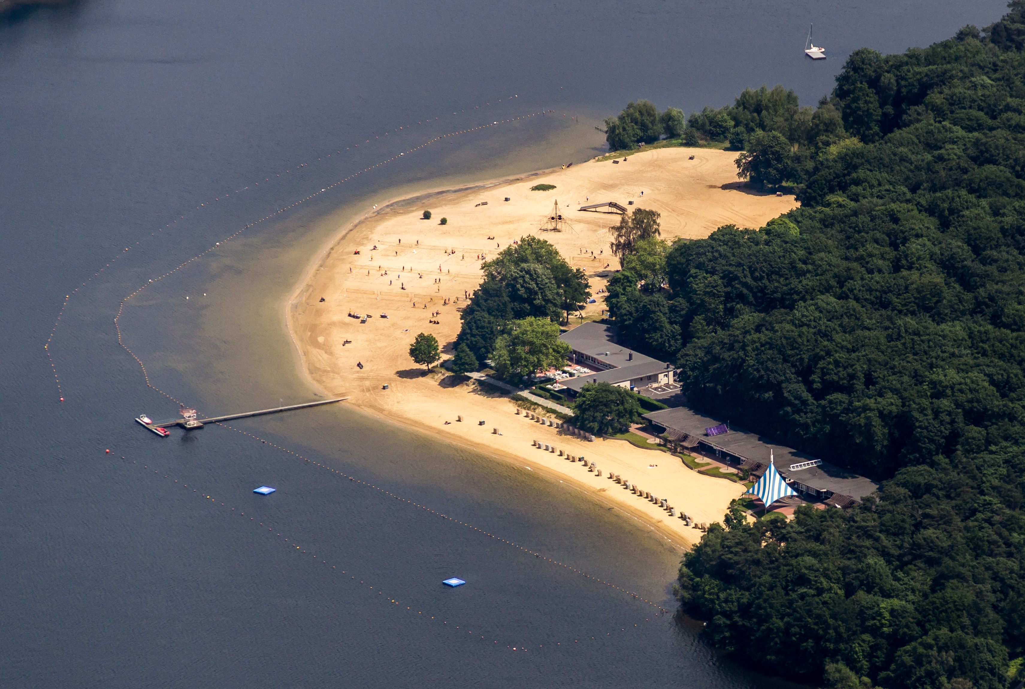 Haltern am See, North Rhine-Westphalia, Germany